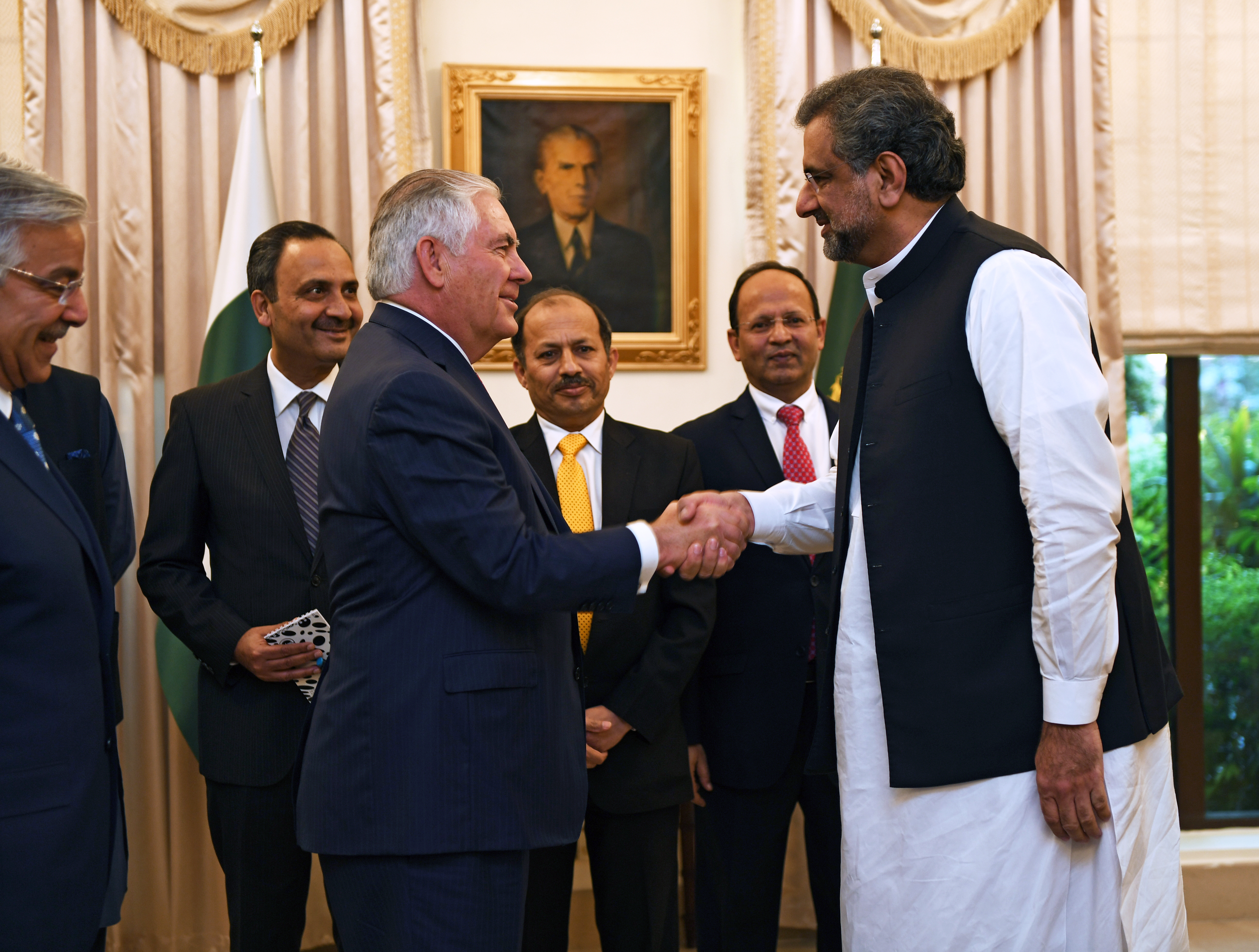 U.S. Secretary of State Rex Tillerson is greeted by Pakistani Prime Minister Shahid Khaqan Abbasi at the Prime Minister's House in Islamabad, Pakistan on October 24, 2017. [State Department Photo/ Public Domain]